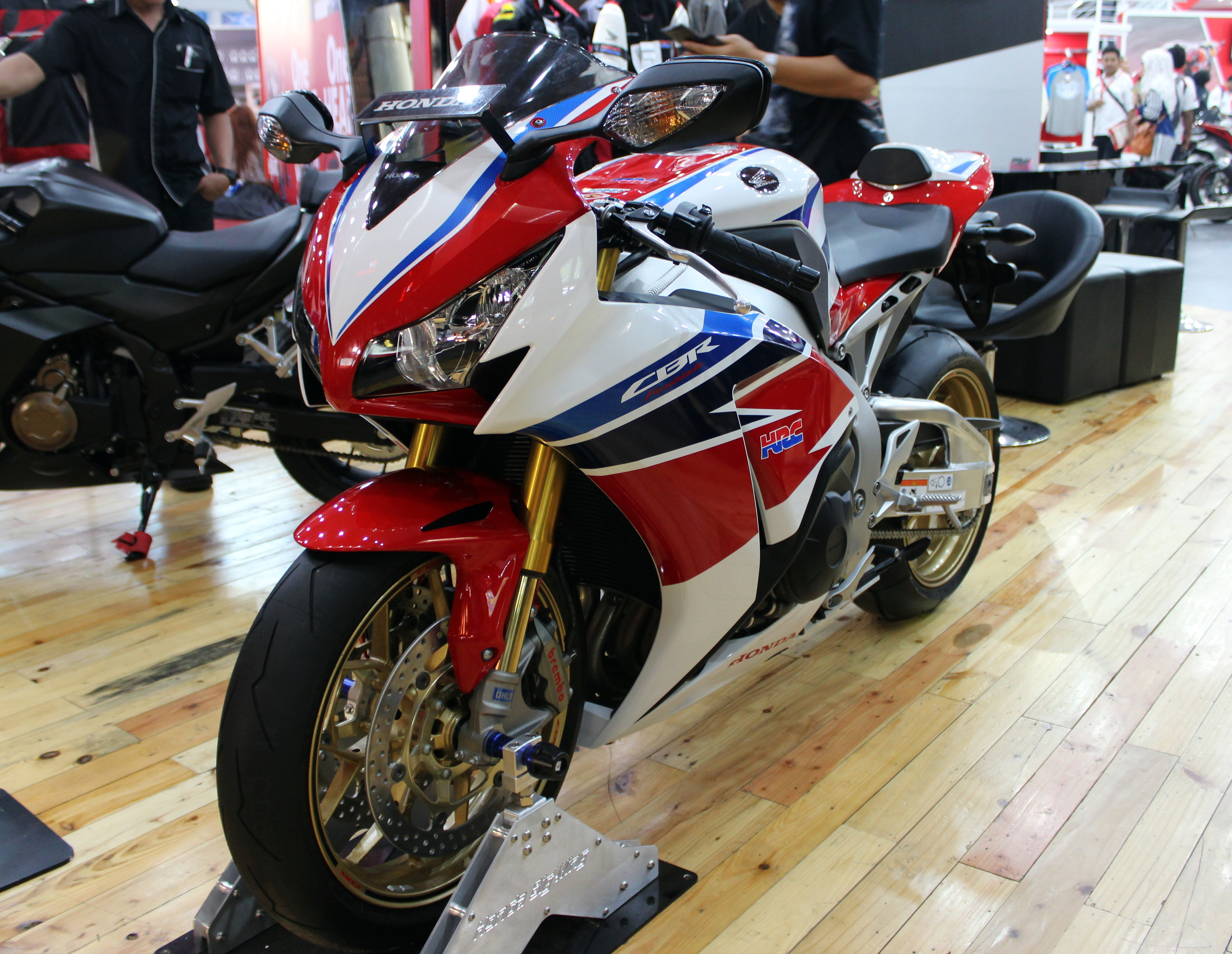 A Honda CBR1000RR Fireblade SP photographed in Jakarta Fair 2016, Jakarta, Indonesia on June 21, 2016.